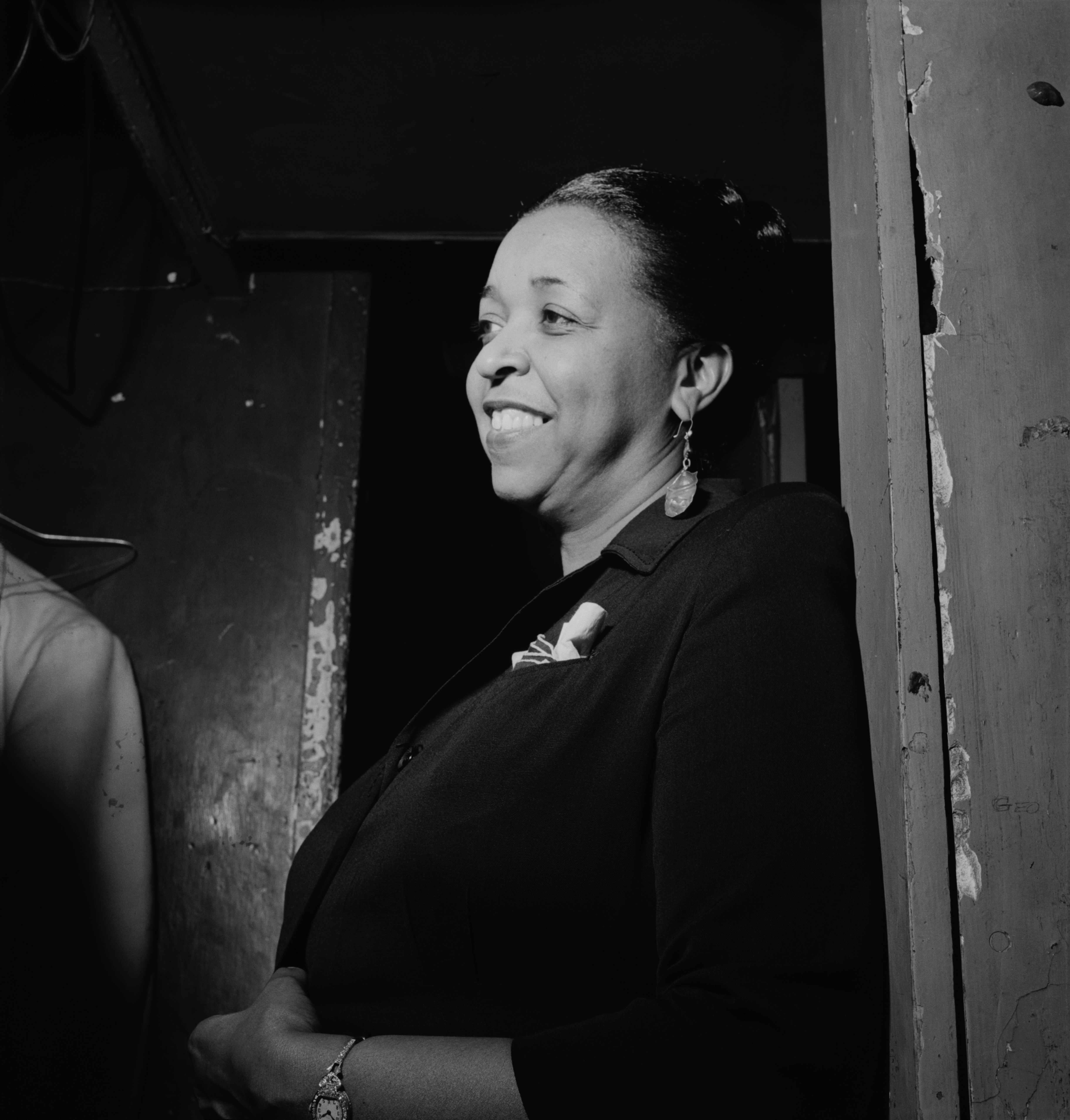 Ethel Waters, in a photo by William P. Gottlieb believed to have been taken in New York City, N.Y.[1]